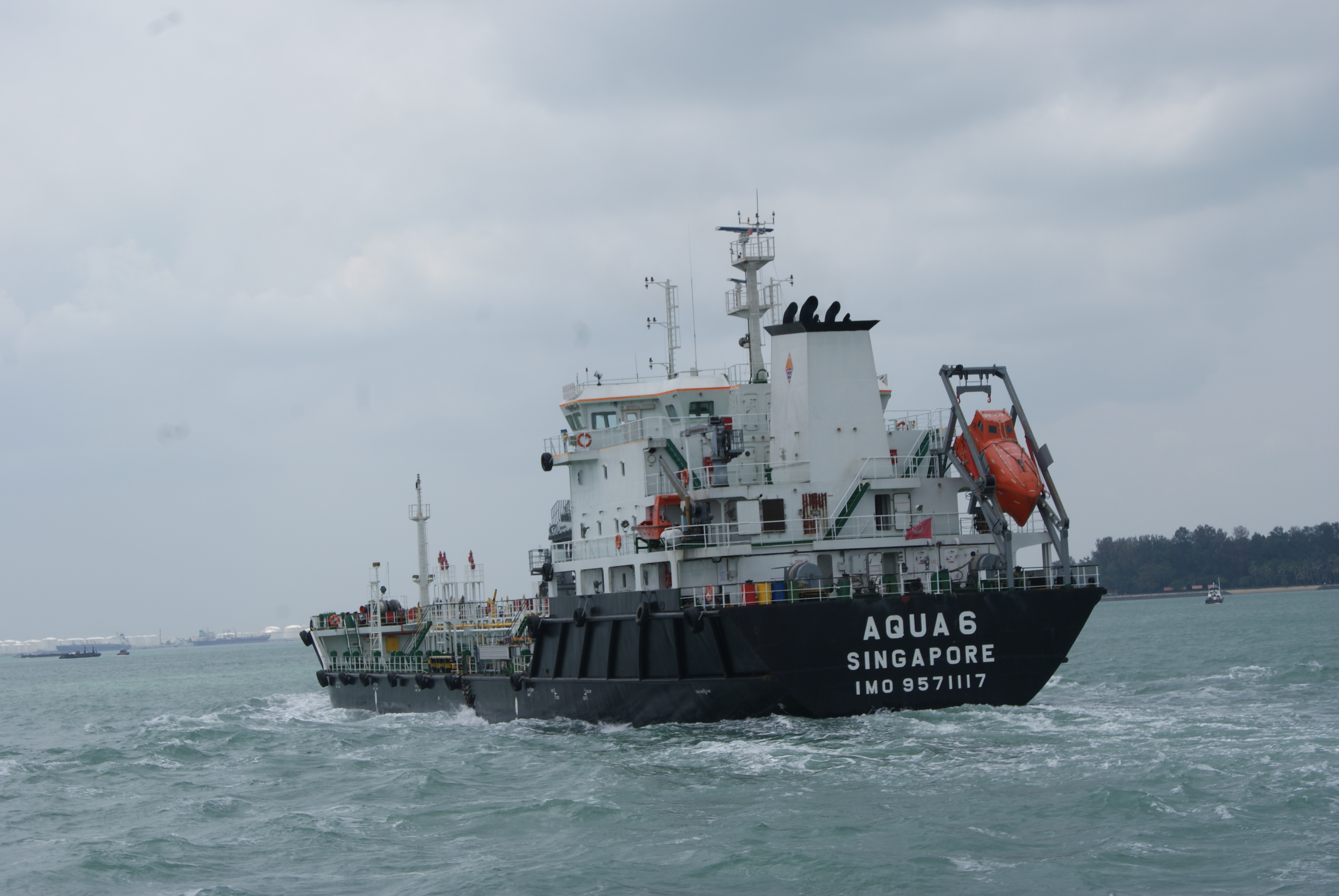 The Singapore-flagged oil products tanker Aqua 6 in Singapore waters.